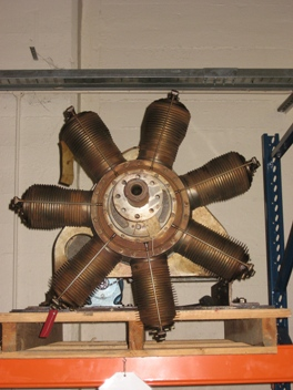 An object from the collections of the Science Museum (London) as copied from their ObjectWiki.